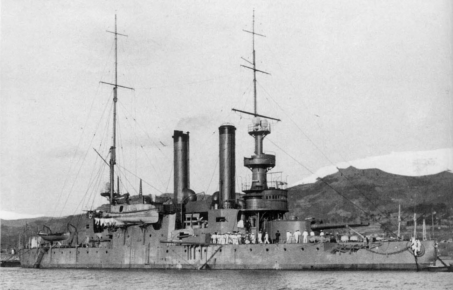 Imperial Japanese coastal defence ship Okinoshima.